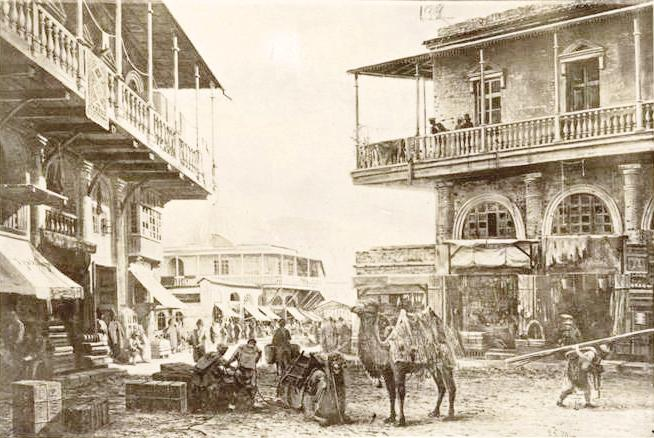 Tiflis: tatar square and bazaar.